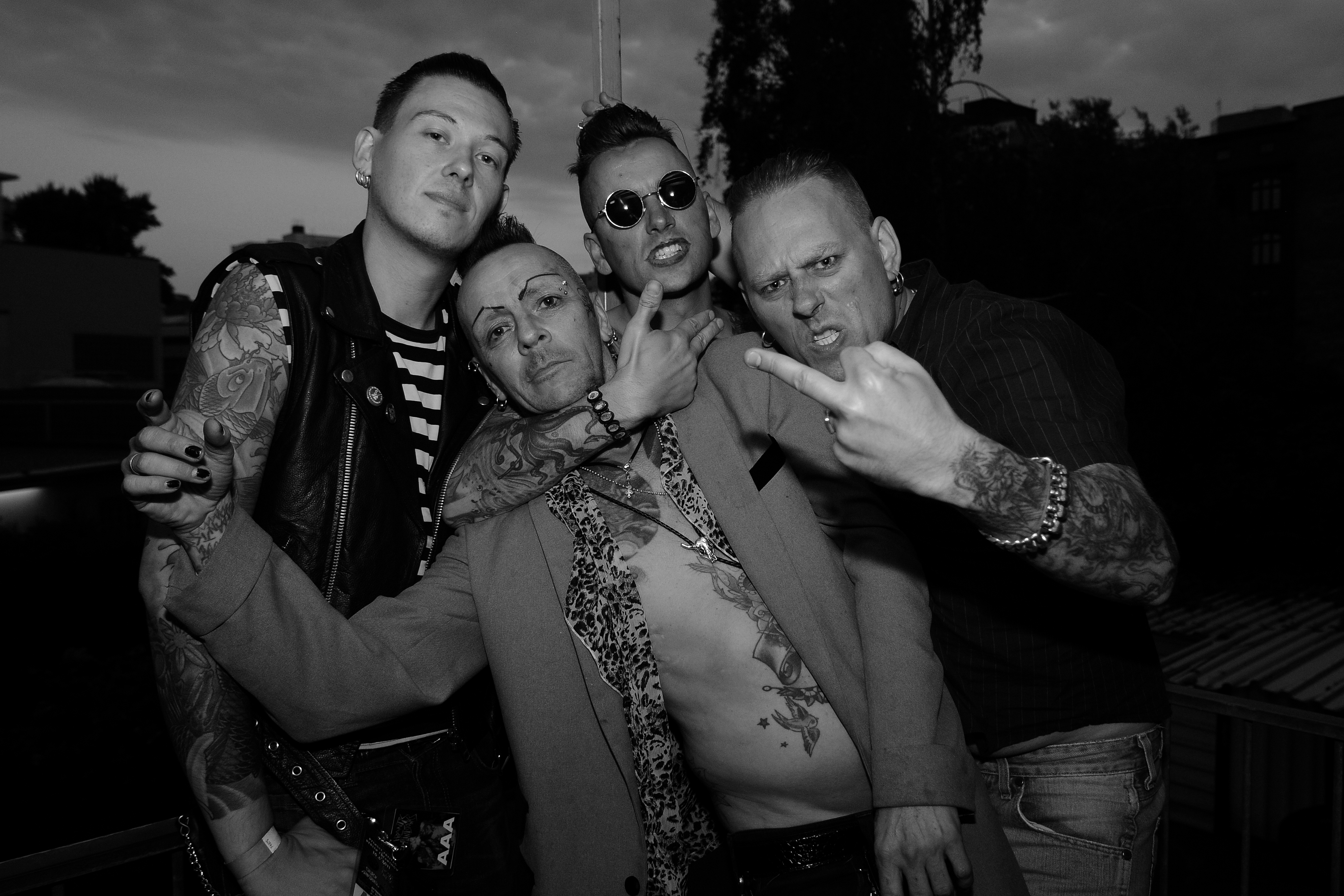 frantic flintstones promo